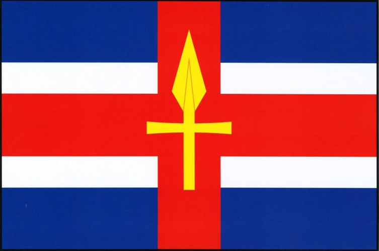 Flag of Nerestce, Písek District